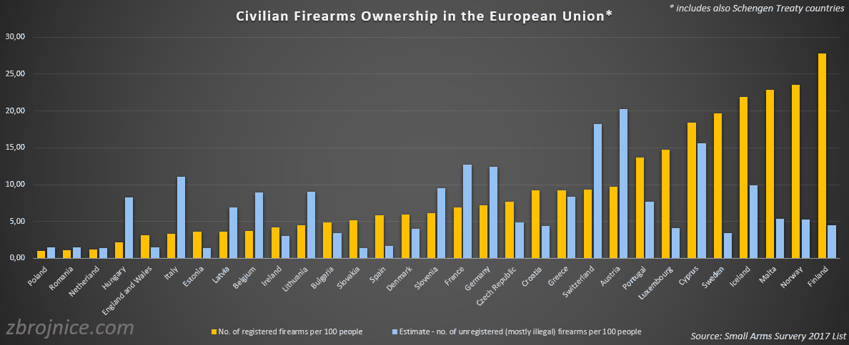 Number of firearms in population of EU countries - per 100 people. Source: Small Arms Survey 2017.